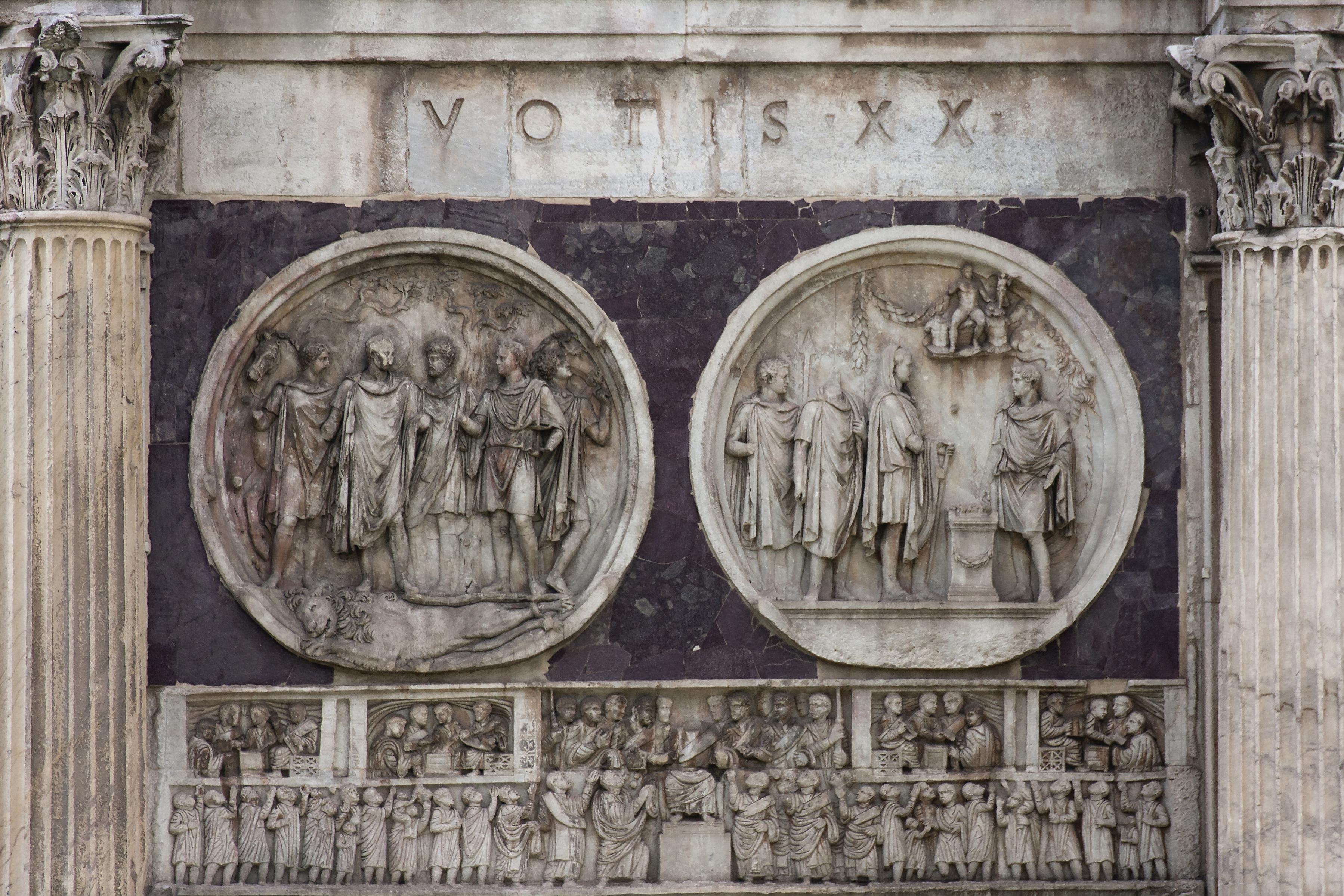 Detail from the Arch of Constantine in Rome.